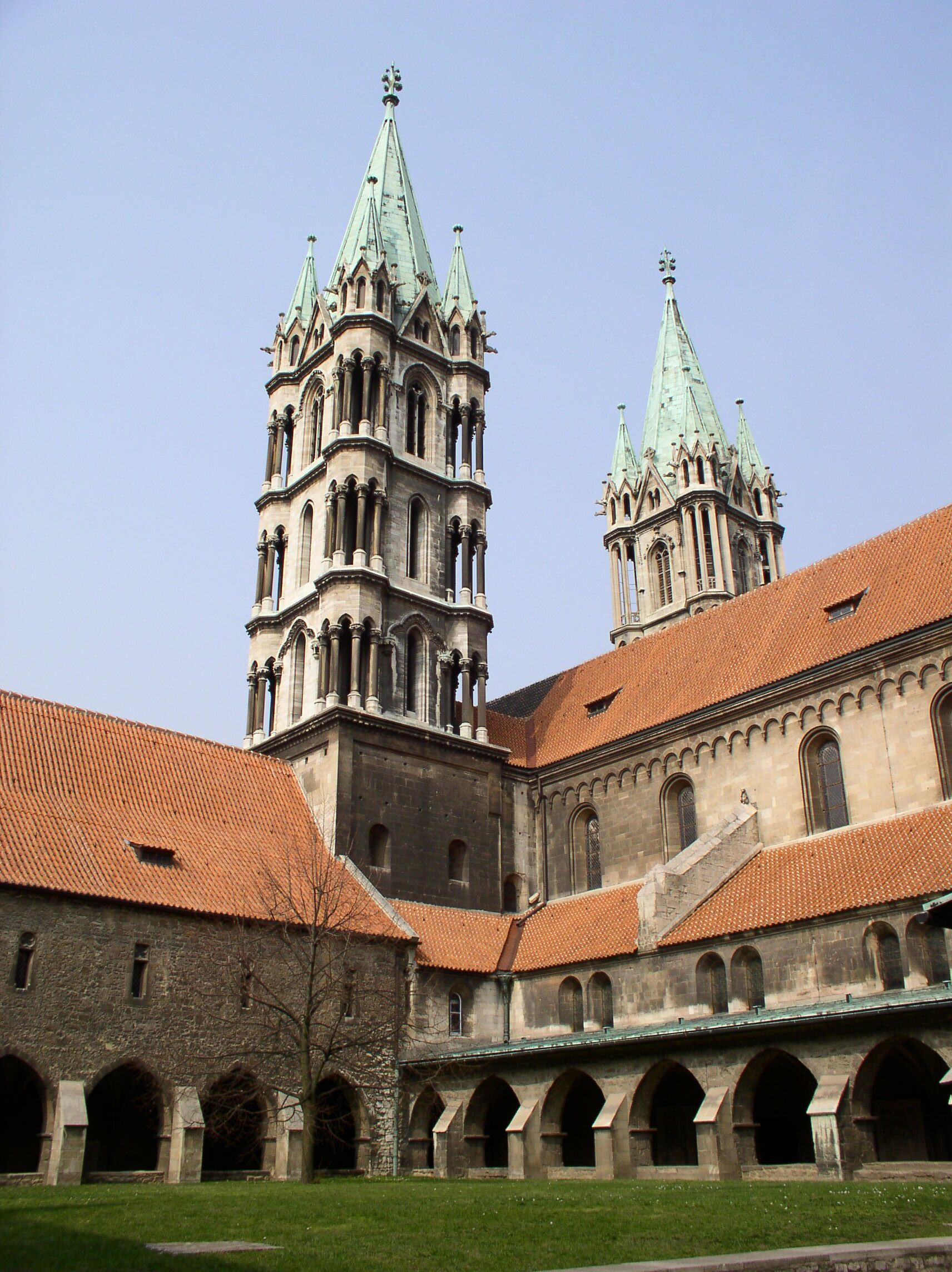 13th century Naumburg Cathedral, Sachsen-Anhalt